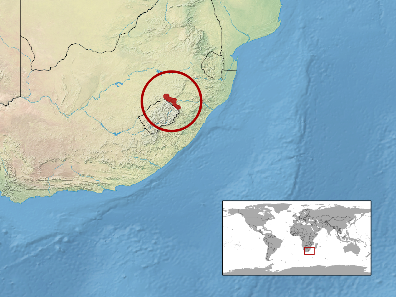 geographic distribution of Bradypodion dracomontanum (Native: South Africa (Free State, KwaZulu-Natal))